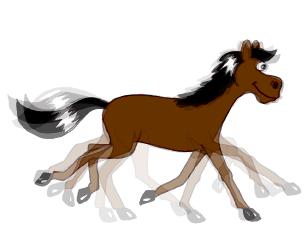 Frame 7 of Image:Animhorse.gif by J-E Nyström, User:Janke, showing onionskin of previous 3 frames. Image:Animhorse.gif is under CC-BY-SA-2.5, so this is, too. Please see that page for more deatails.